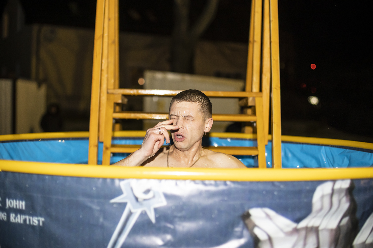 Epiphany bathing in Kaliningrad 2019-01-19